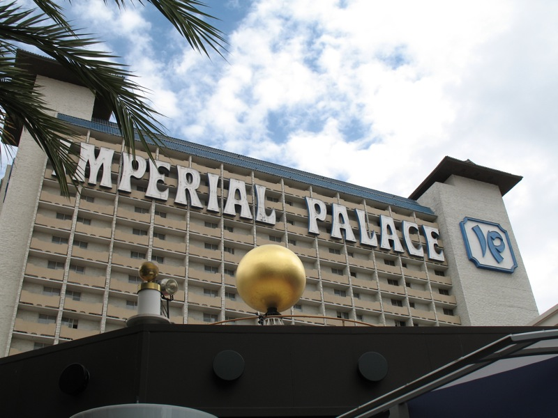 is a 2,640 room hotel and a 75,000 square foot (7,000 m²) casino located on the famed Las Vegas Strip in Paradise, Nevada.